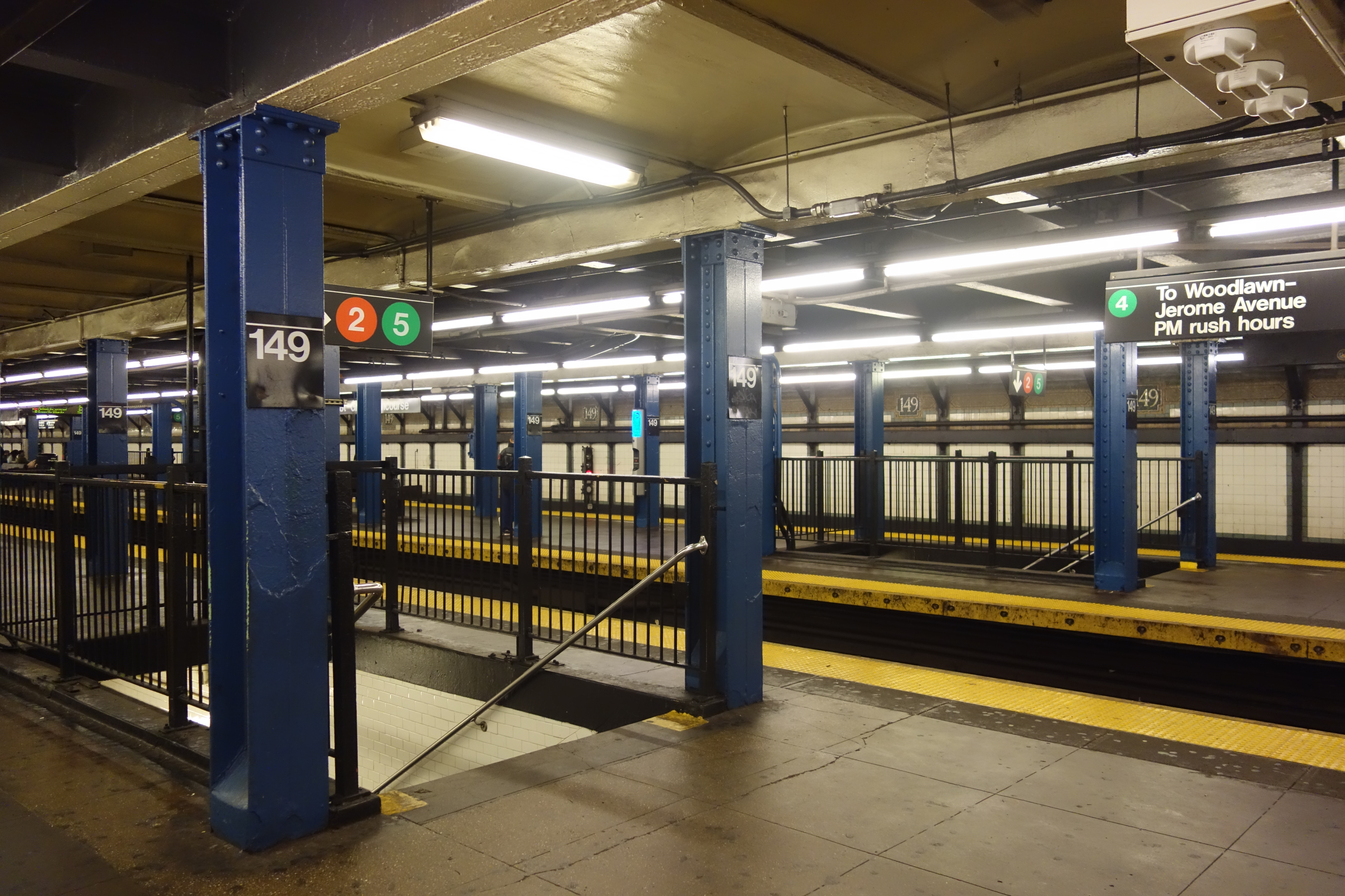 Looking from a Woodlawn-bound 4 train at the Uptown platform of the 149th Street–Grand Concourse IRT Jerome Avenue station, under Grand Concourse and East 149th Street in Mott Haven / Concourse, Bronx.